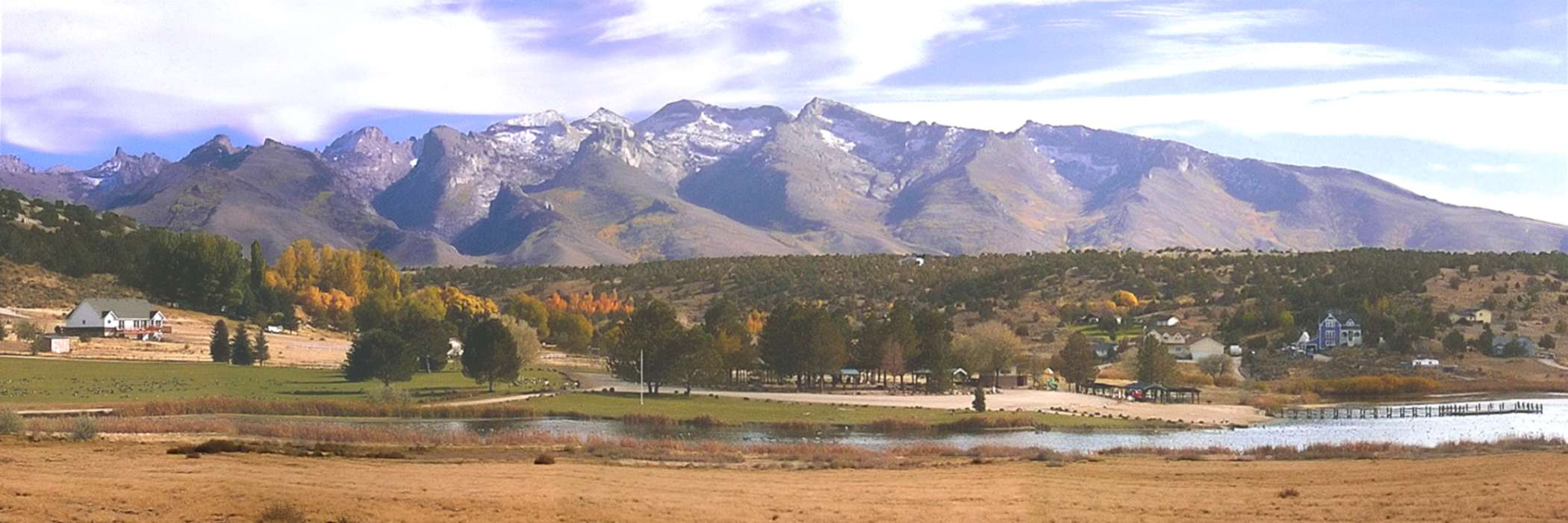 Marina Park in Spring Creek, with the Ruby Mountains.